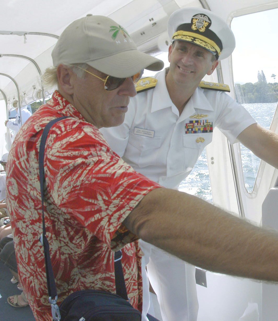 Cropped and color-balanced version of Image:Jimmy Buffet navy.jpg.